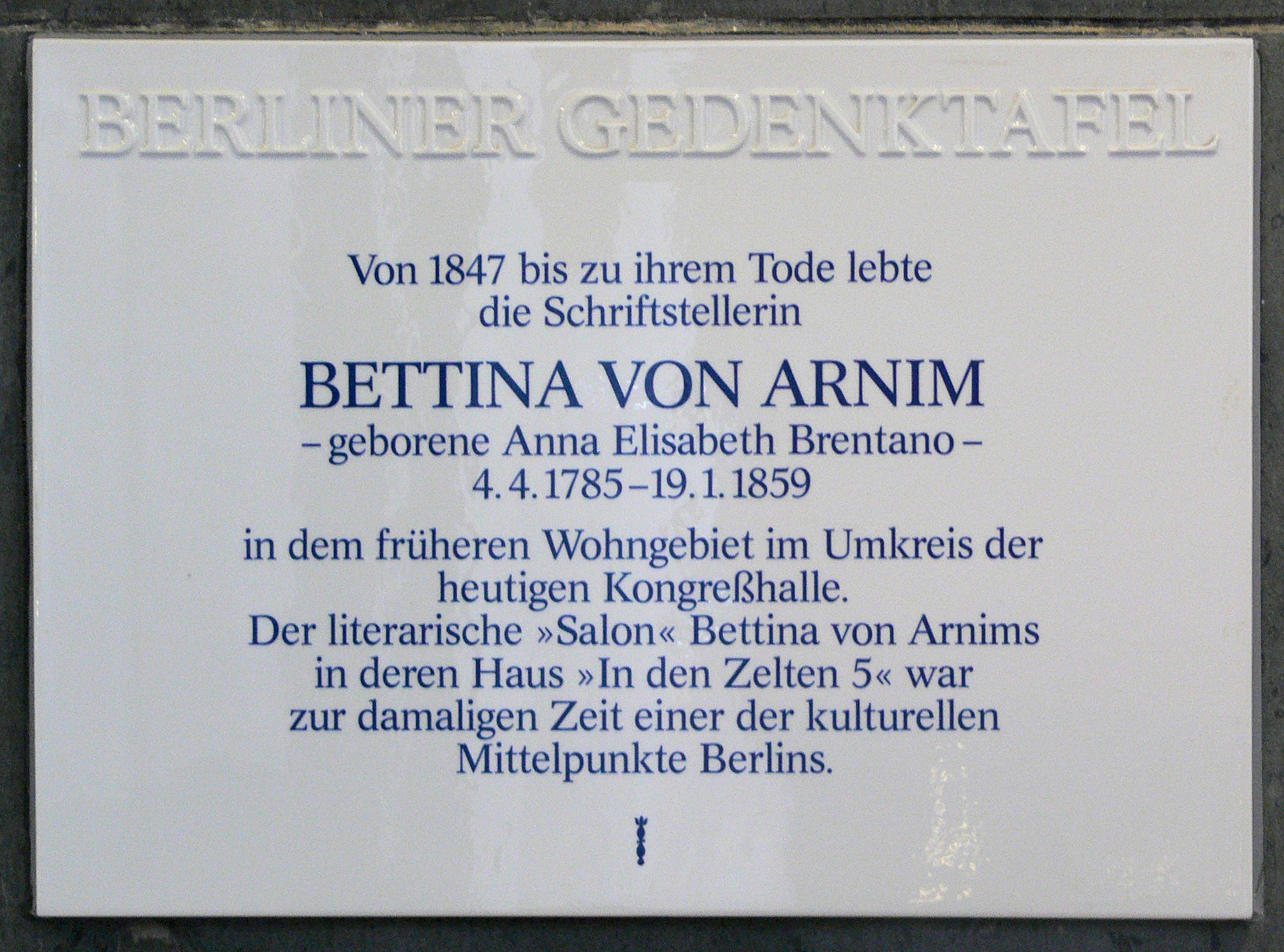 Berlin memorial plaque, Bettina von Arnim, Bettina-von-Arnim-Ufer , Berlin-Tiergarten, Germany